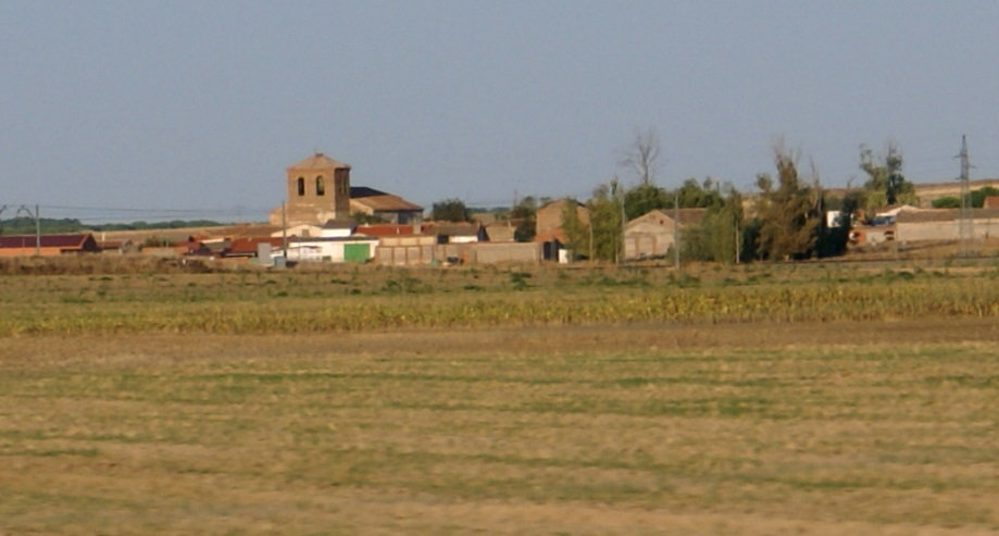 View of San Vicente del Palacio, Valladolid, Spain.